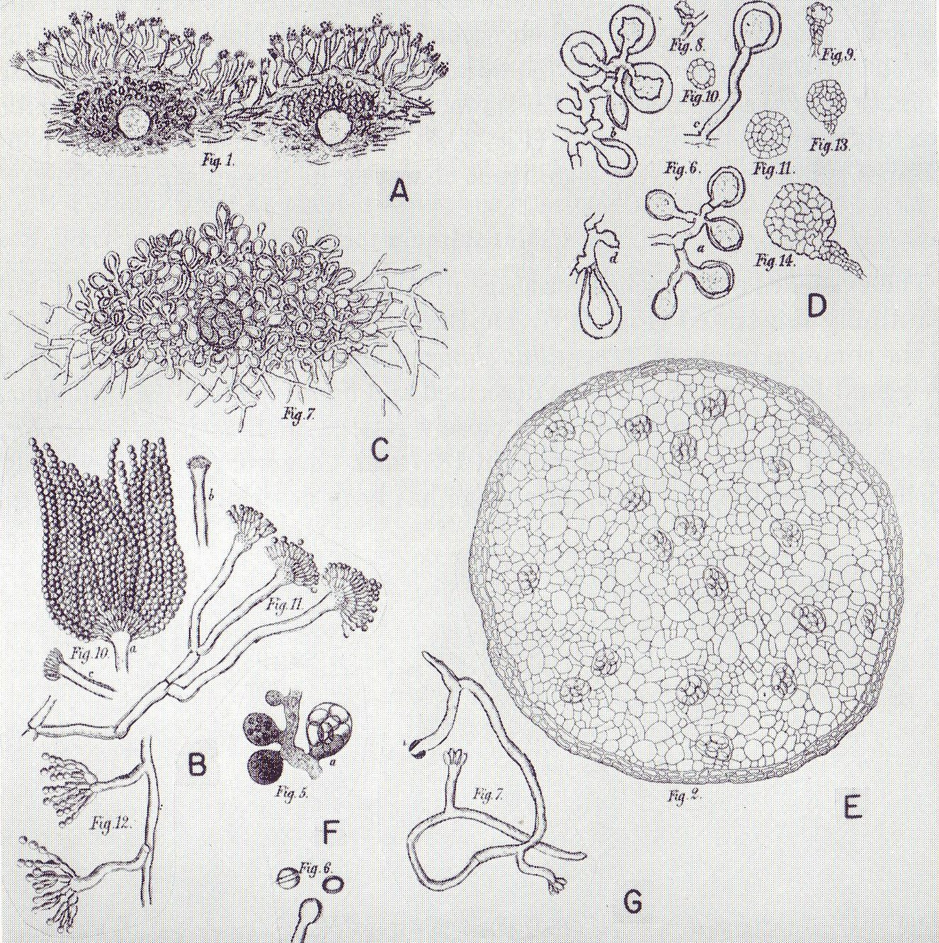 Development and history of Sterigmatocastis nidulans